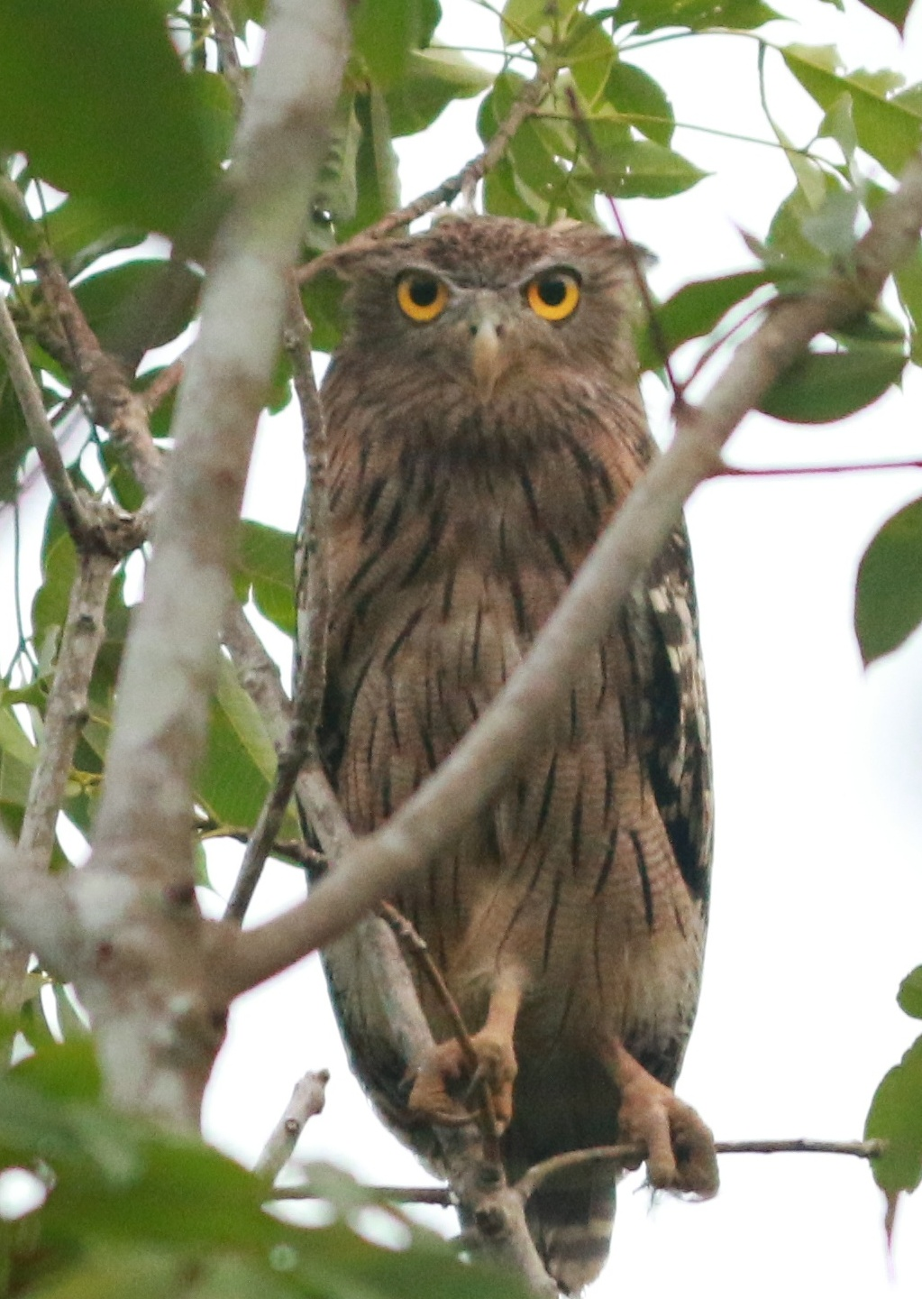 Brown fish owl